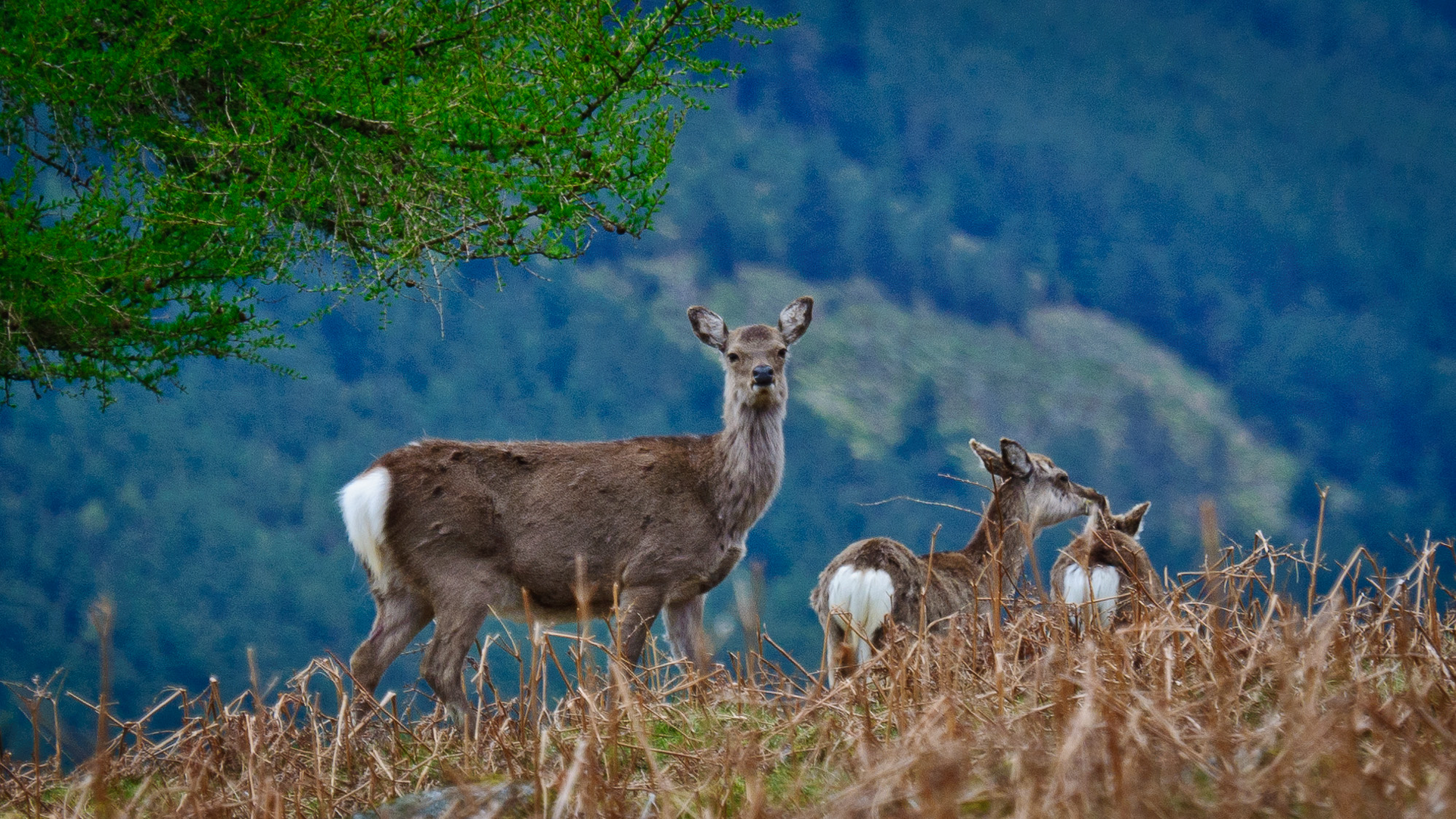 Hybrid Red-Sika Deer on the slopes of Camaderry Mountain, County Wicklow, Ireland